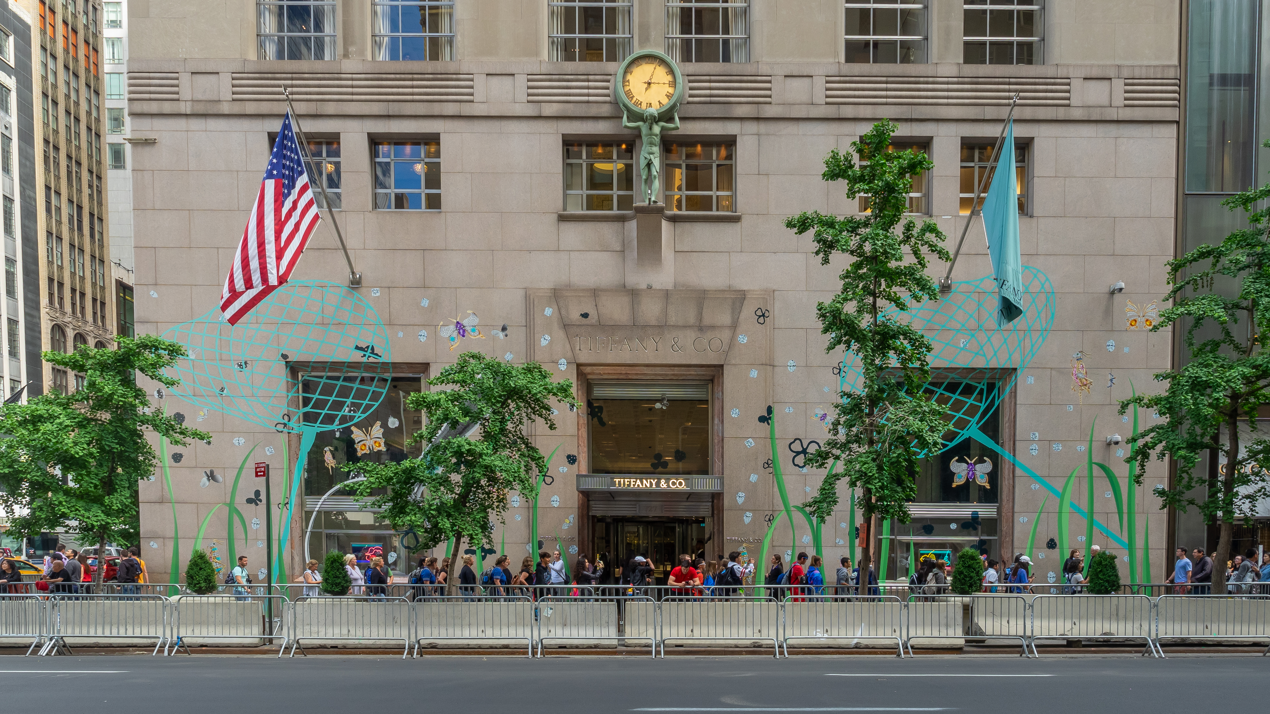 5th Ave, Midtown, NYC